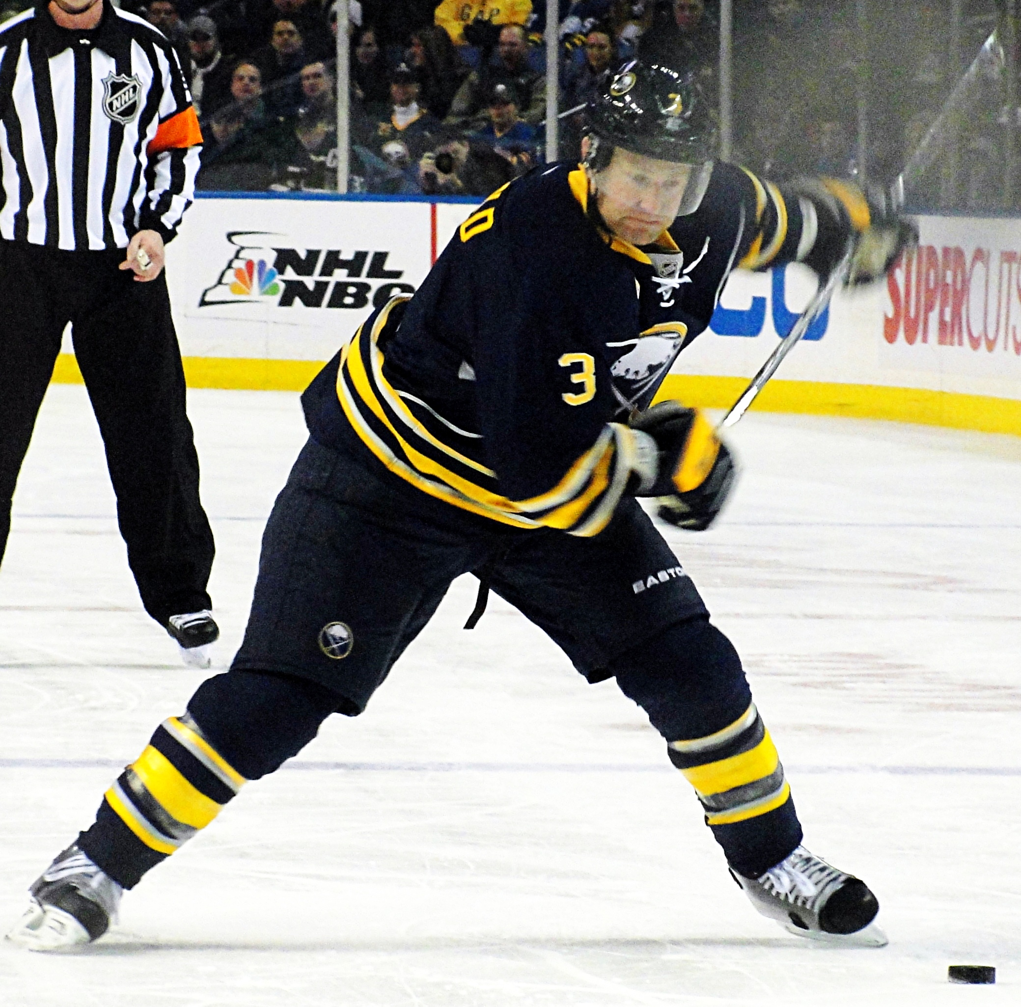 Buffalo Sabres defenseman Jordan Leopold warms up for a February 19, 2012 game against the Pittsburgh Penguins at First Niagara Center in Buffalo, NY.